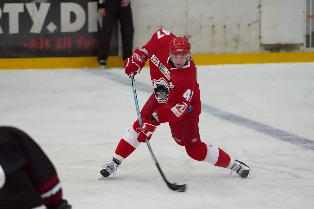 Mr. David Bornhammar in action.